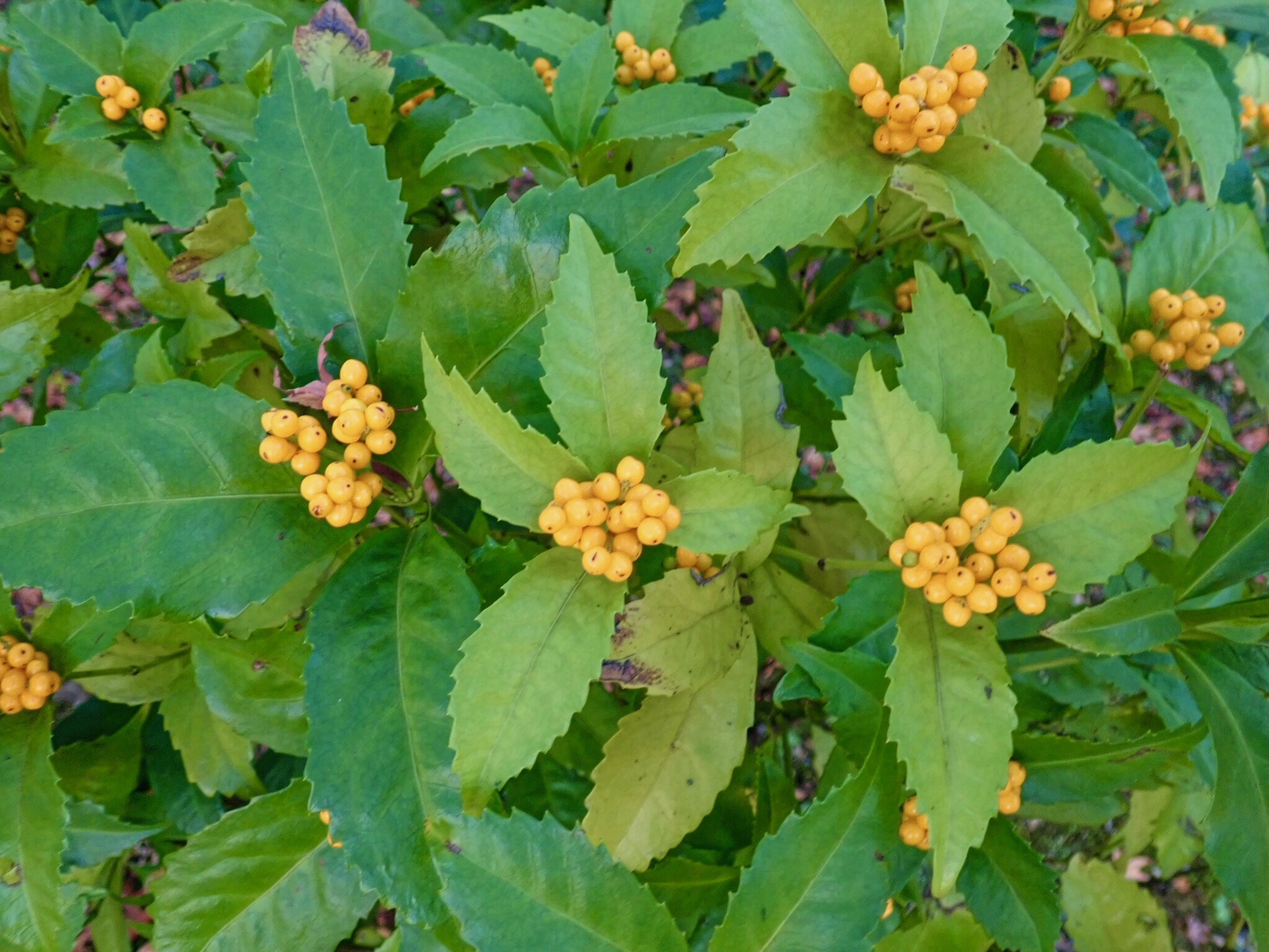 Sarcandra glabra at Koishikawa Kourakuen